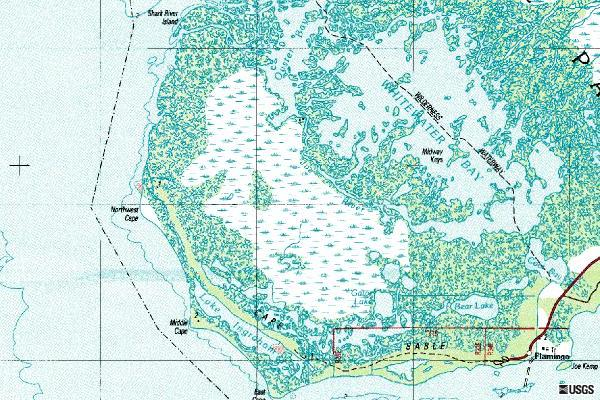 USGS topographic map covering Cape Sable in Florida